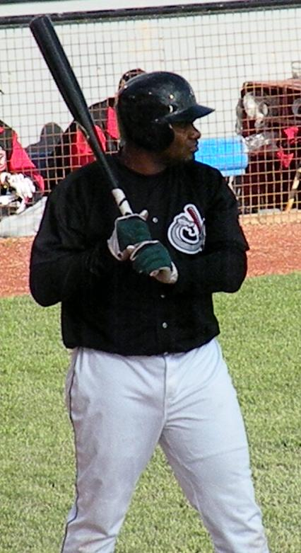 Former Major League Baseball player Félix José with the independent Calgary Vipers, June 14, 2008.